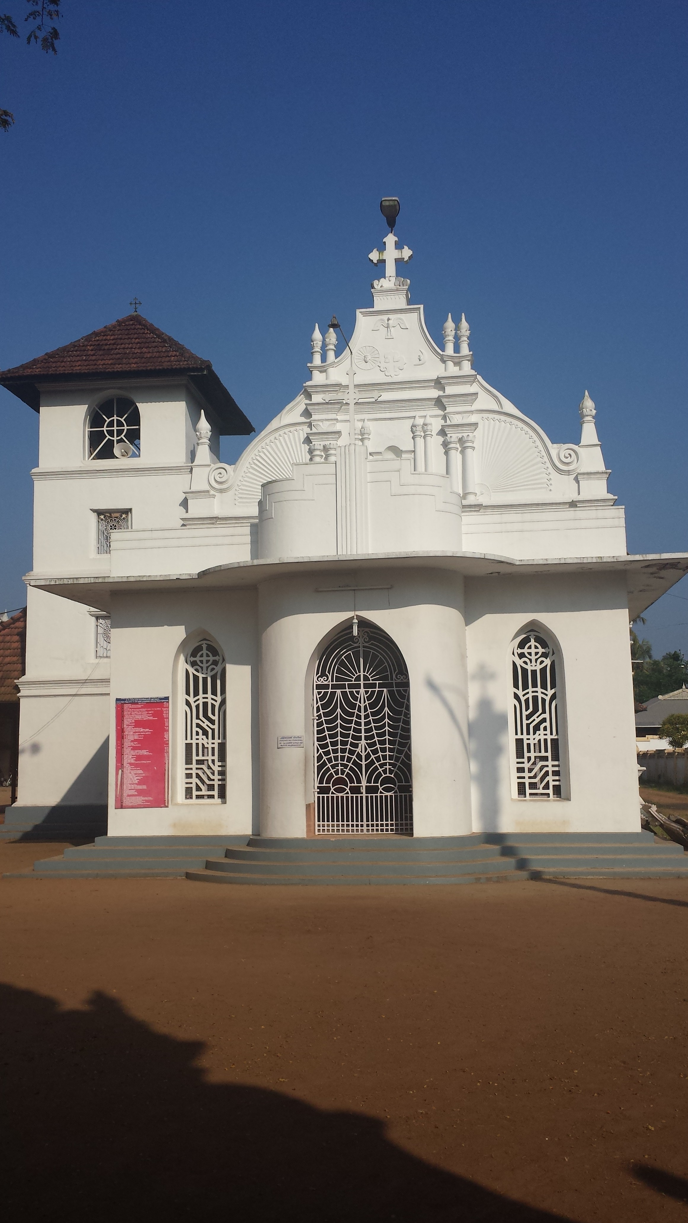 Paravur St. Thomas Jacobite Syrian Church which houses the tomb of Mar Gregorios Abdul Jaleel, the first Antiochian bishop to reach Malankara.